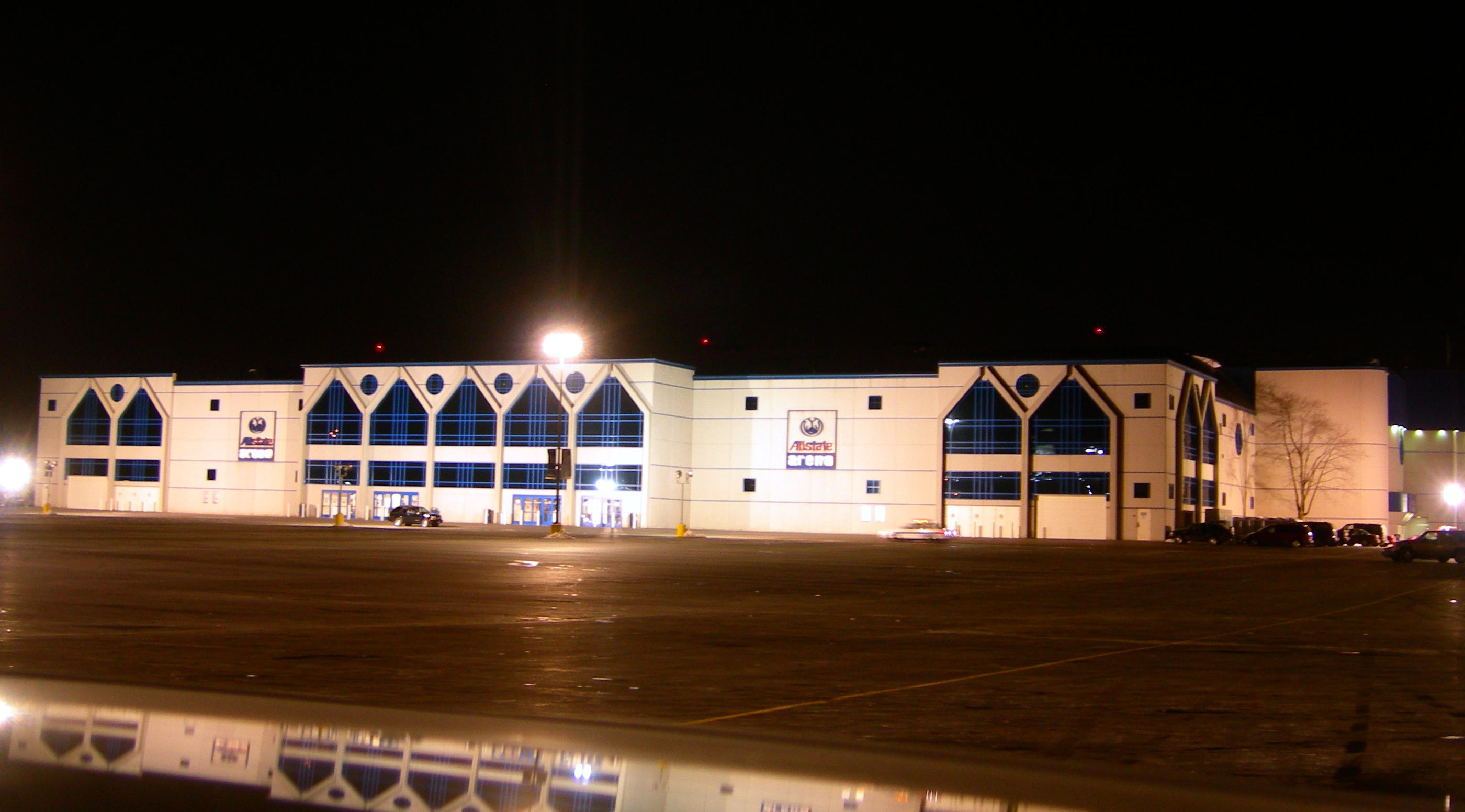 Allstate Arena in Chicago.